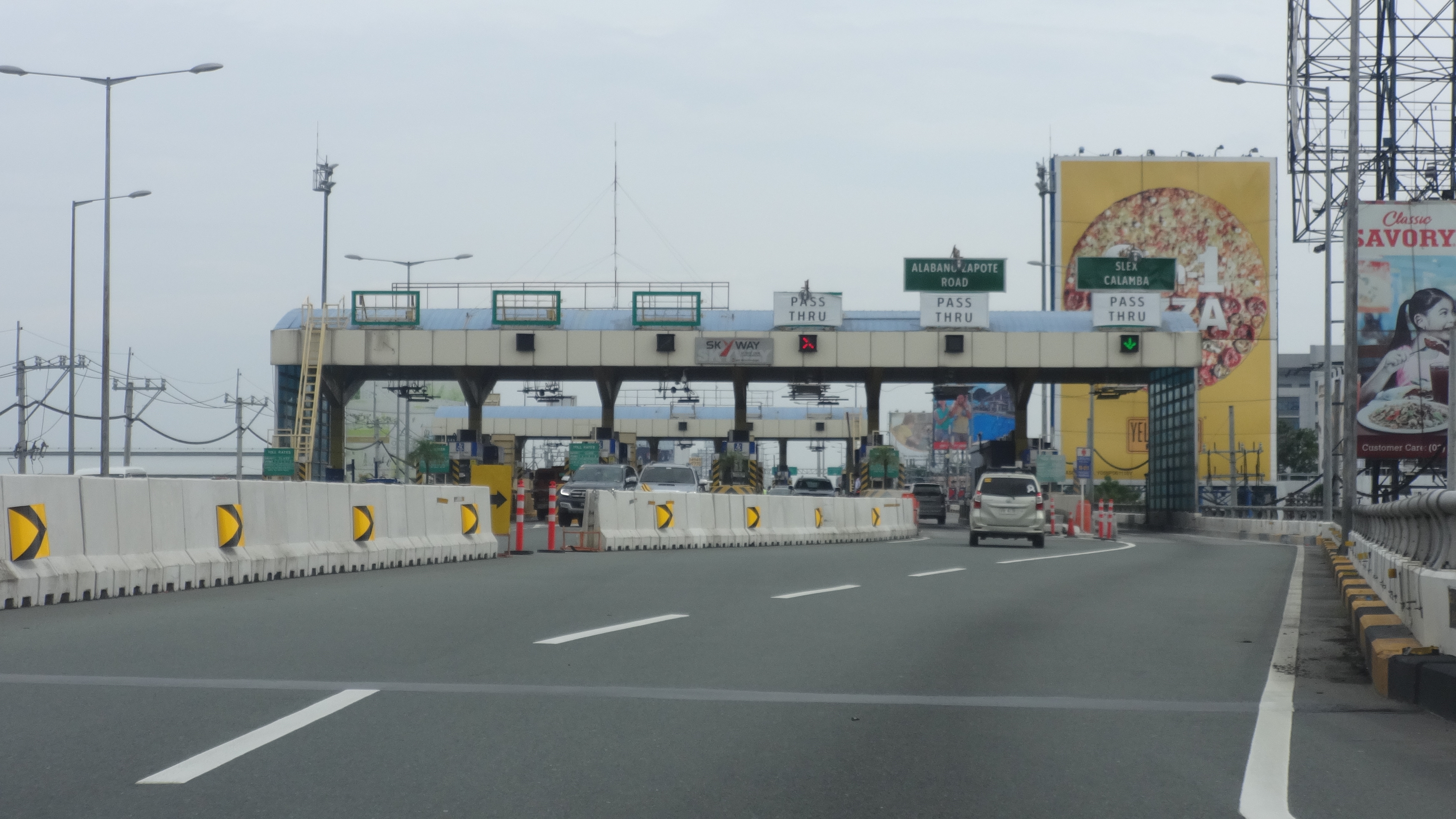 Sucat Toll Plaza of Metro Manila Skyway along South Superhighway, Muntinlupa City